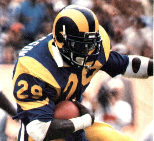 Los Angeles Rams running back Eric Dickerson rushing the ball against the Cleveland Browns during a September 9, 1984 home game at Anaheim Stadium.